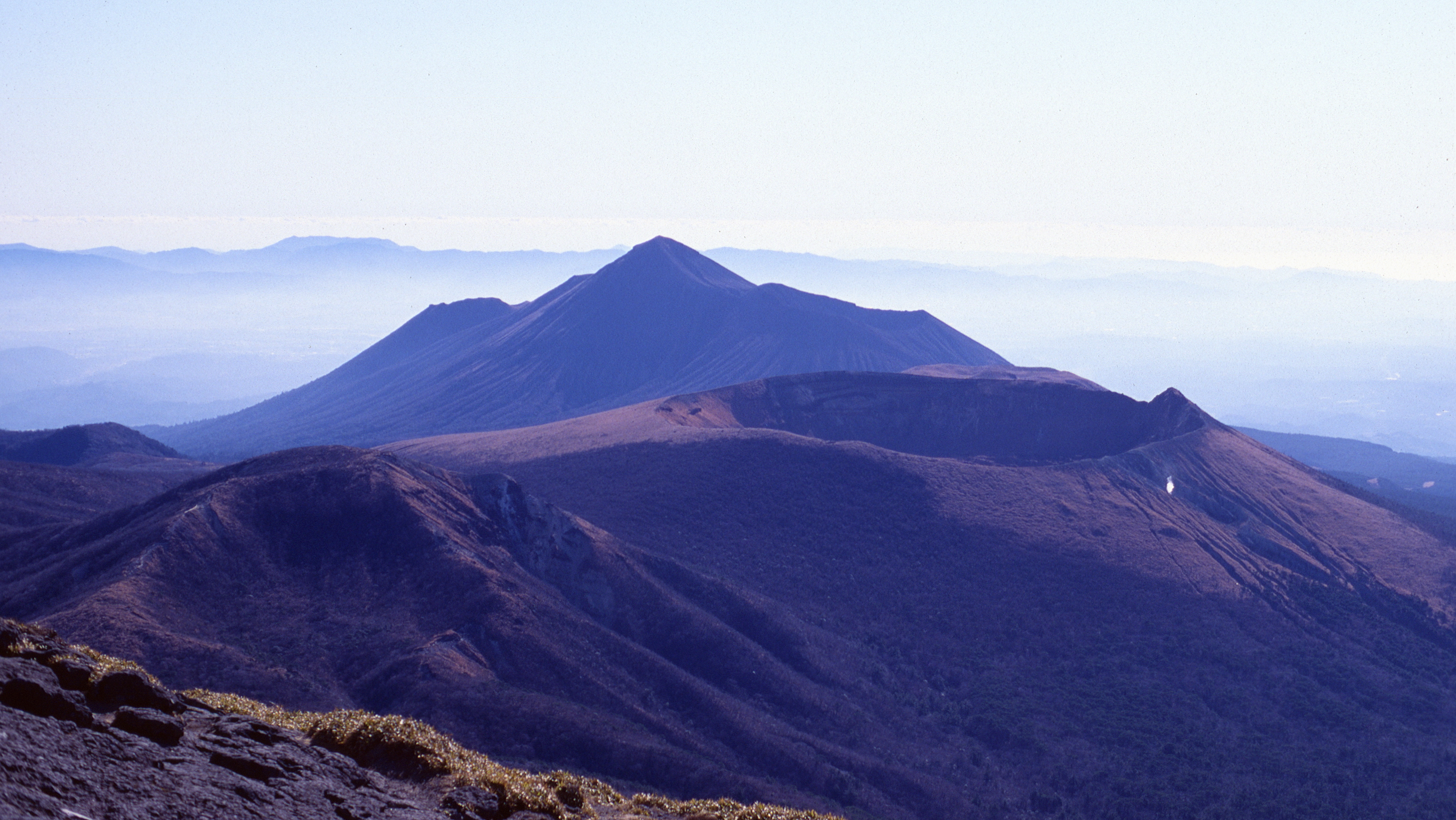 Shinmoe volcano (foreground) & Takachiho volcano (background) in 1998.